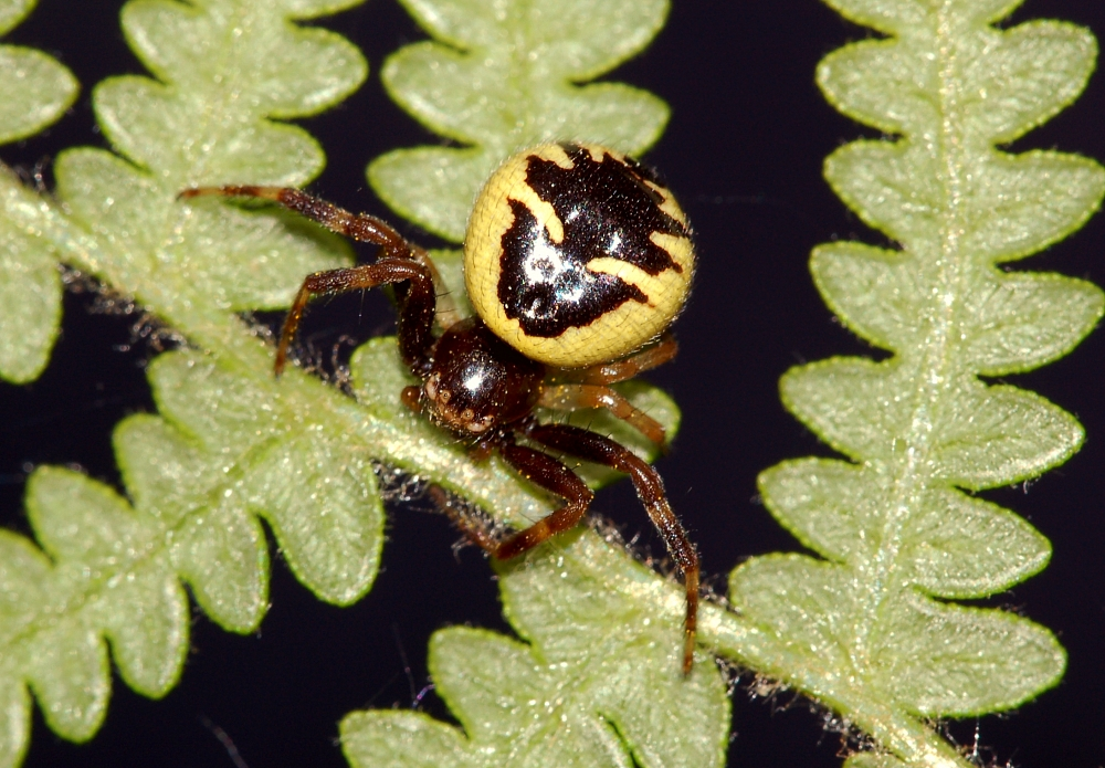 Crab spider (Synema globosum), Bedarieux, Languedoc-Roussillon, France